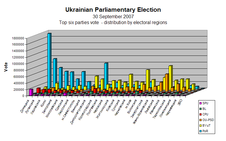 Ukrainian parliamentary election, 2007.